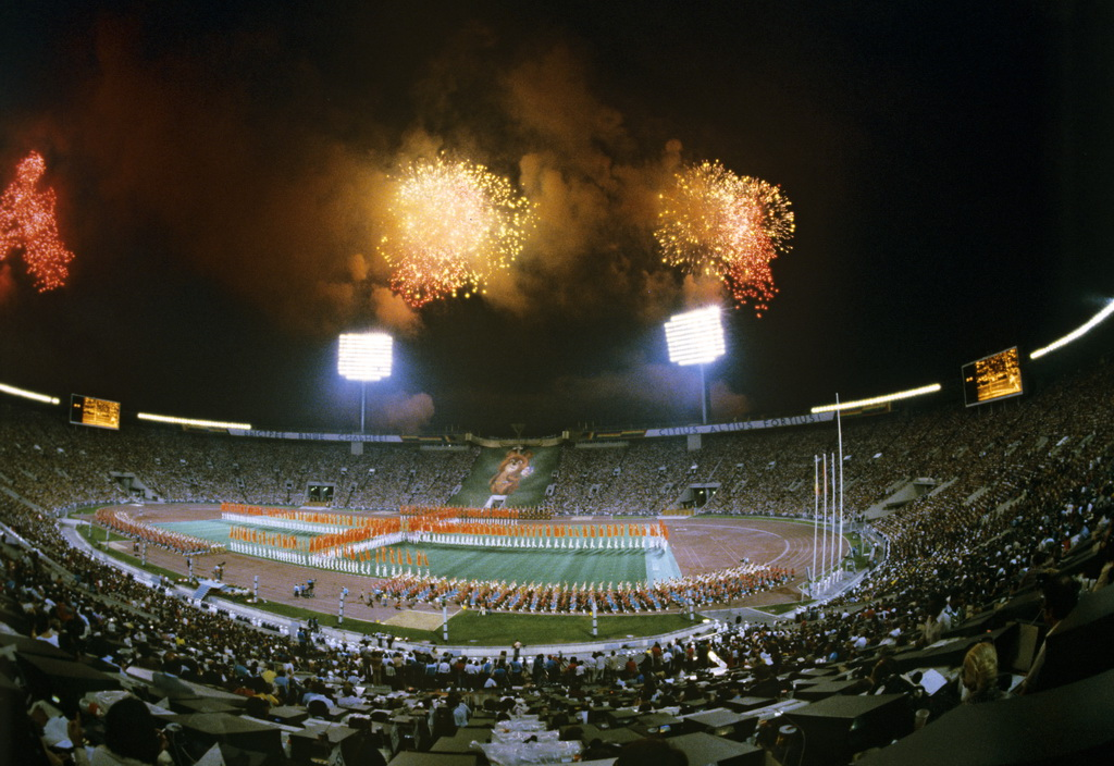 “Closing ceremony of the 22nd Summer Olympic Games”. Fireworks at the closing ceremony of the 22nd Summer Olympic Games. Luzhniki Central Stadium.